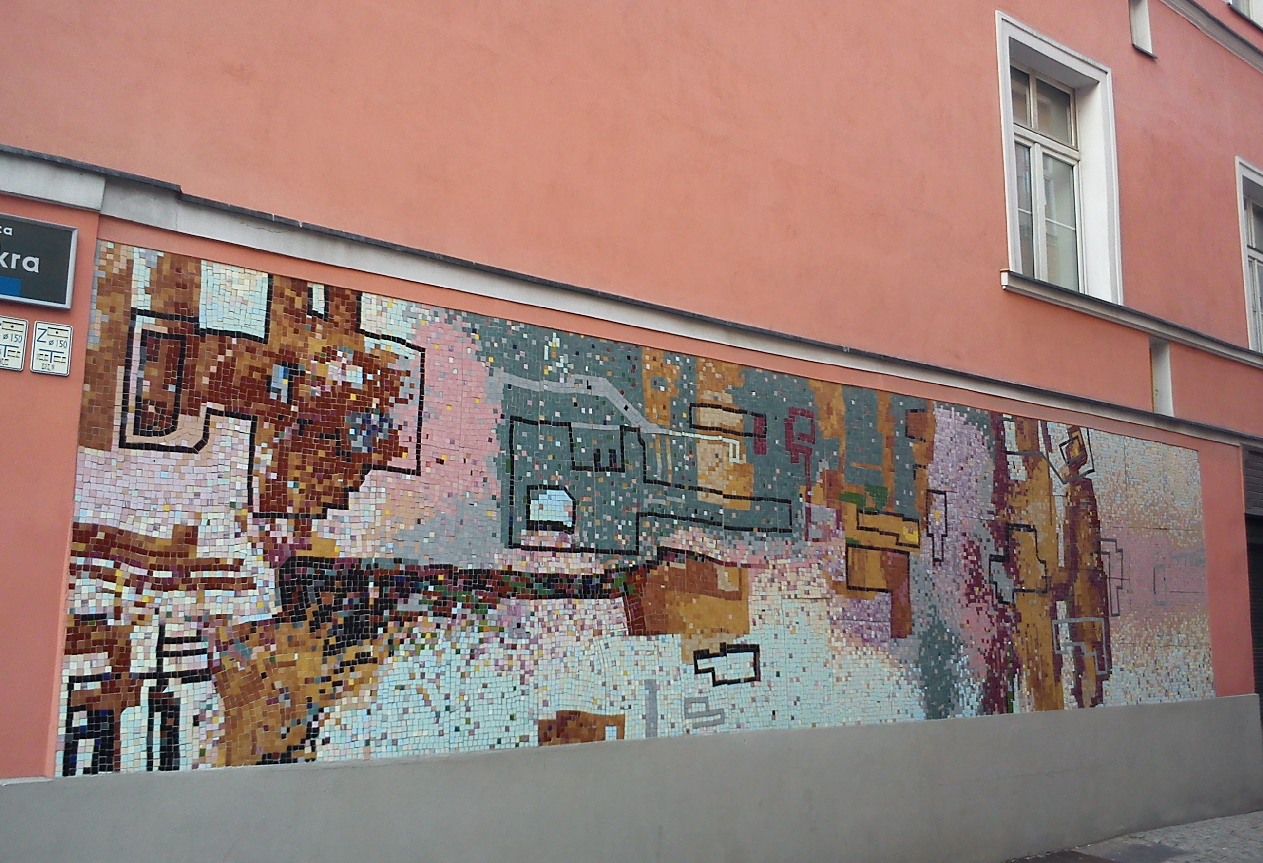 Mosaic in the old city - Poznań, Mokra street. Building address: Wroniecka 17. Mosaic created by Andrzej Żurek in 1994.